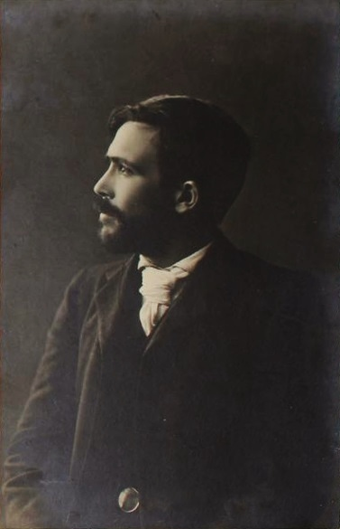 Photograph of João Grave (1872-1934)